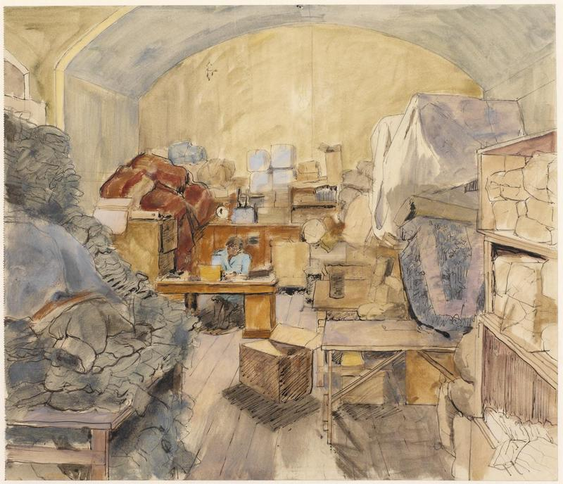 A women sits at a desk in the centre of a clothing store, surrounded by large boxes and heaps of clothing